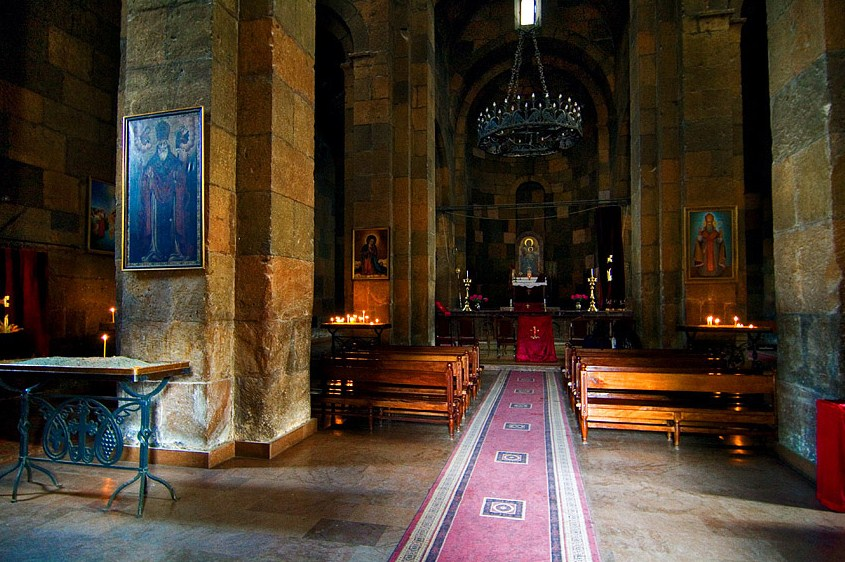 St. Gayane Church, Armenia. View: indoor